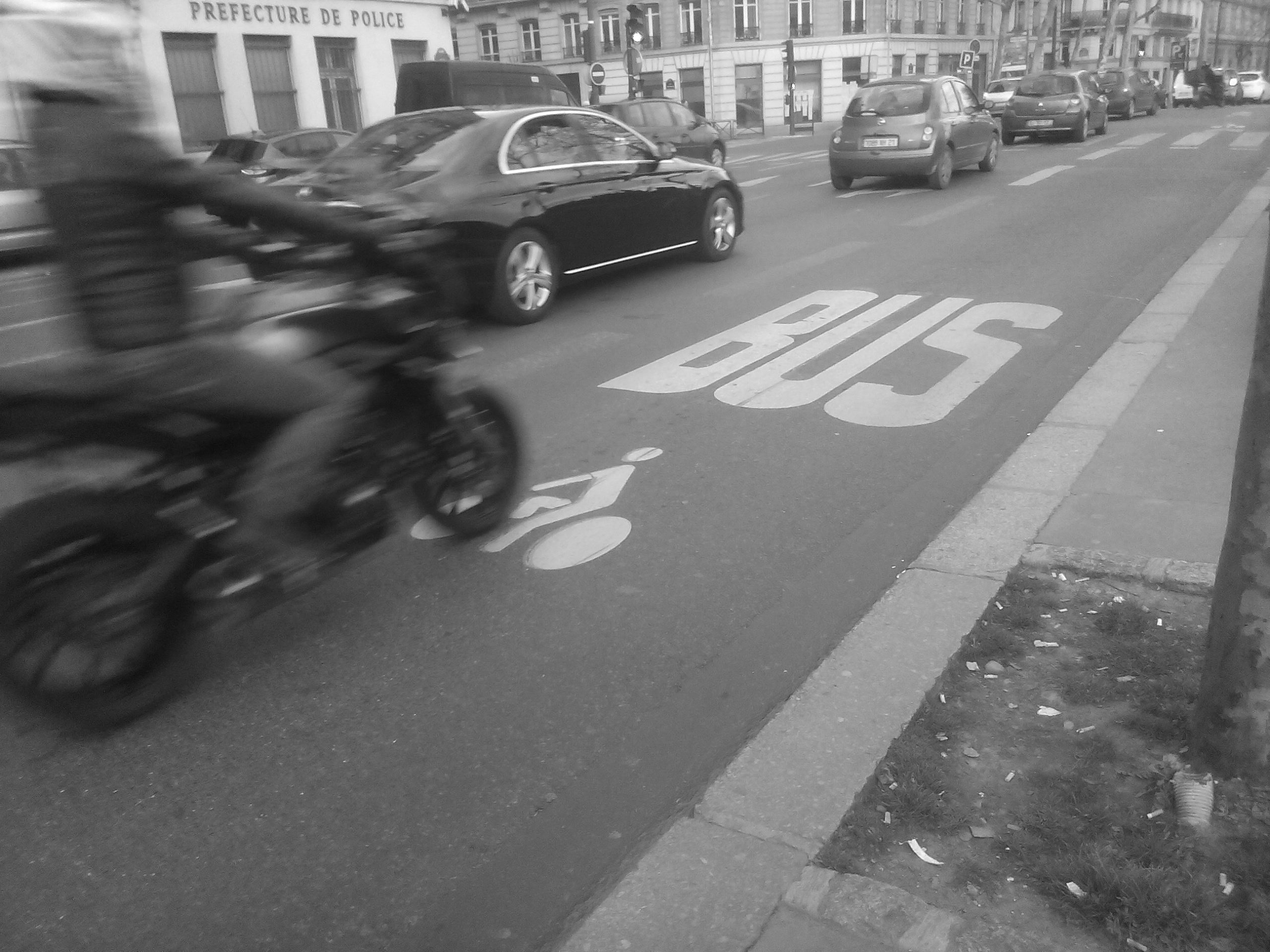 Police Headquarter - Paris (20180321 181723)